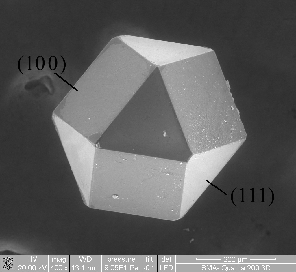 Cuboctahedron-shaped crystal of the synthetic diamond obtained in the Laboratory of the High-Temperature Materials of the Moscow Steel and Alloys Institute. Picture are taken with QUANTA-3D scanning electron microscope. Facet indices are shown.